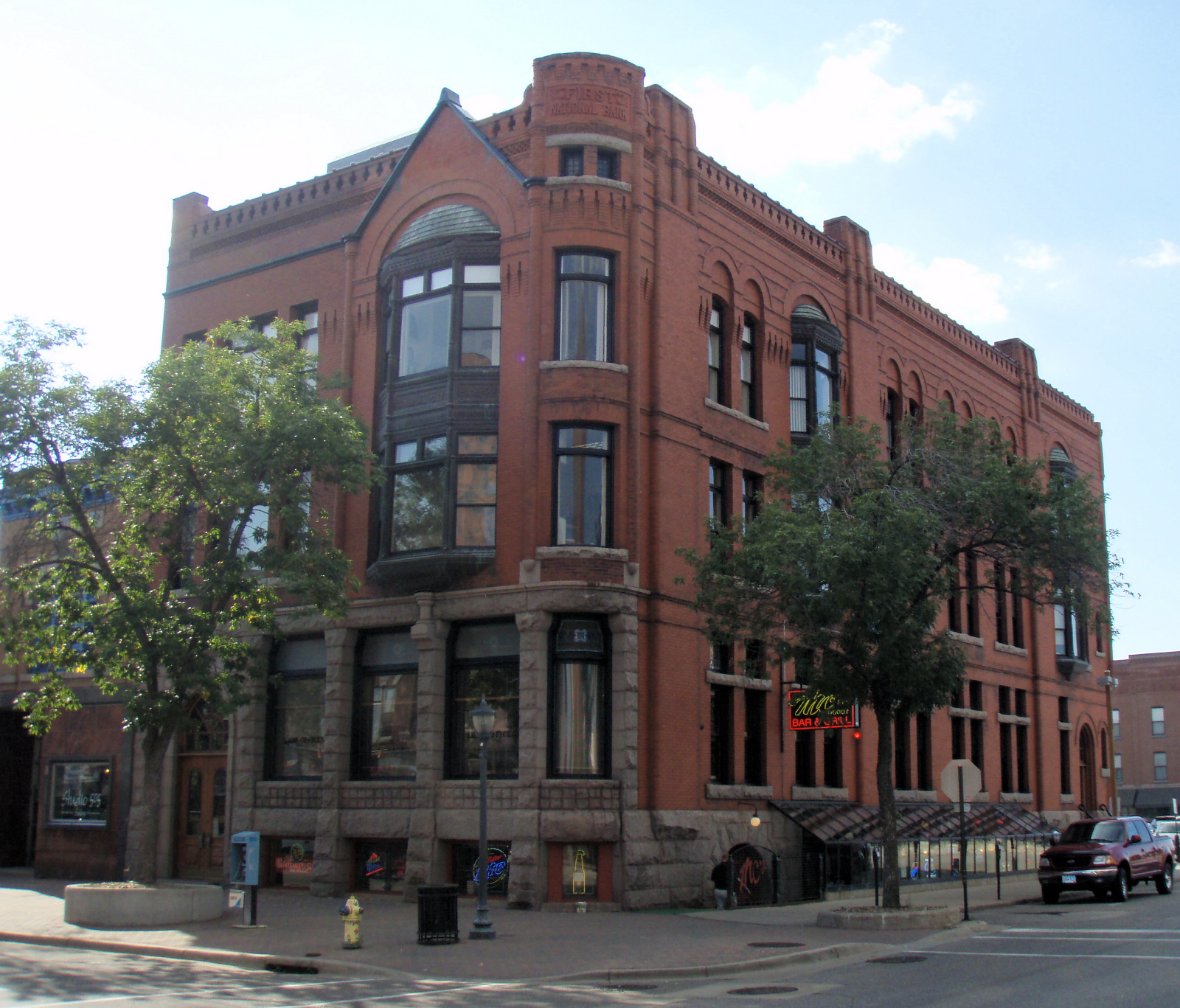 First National Bank (St. Cloud, Minnesota) in St. Cloud, Minnesota, listed on the National Register of Historic Places.